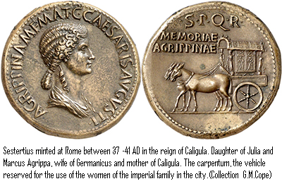 Sestertius minted at Rome between 37 - 41 AD in the reign of Caligula. Daughter of Julia and Marcus Agrippa, wife of Germanicus and mother of Caligula. The carpentum, the vehicle reserved for the use of the women of the imperial family in the city.(Collection G.M.Cope)